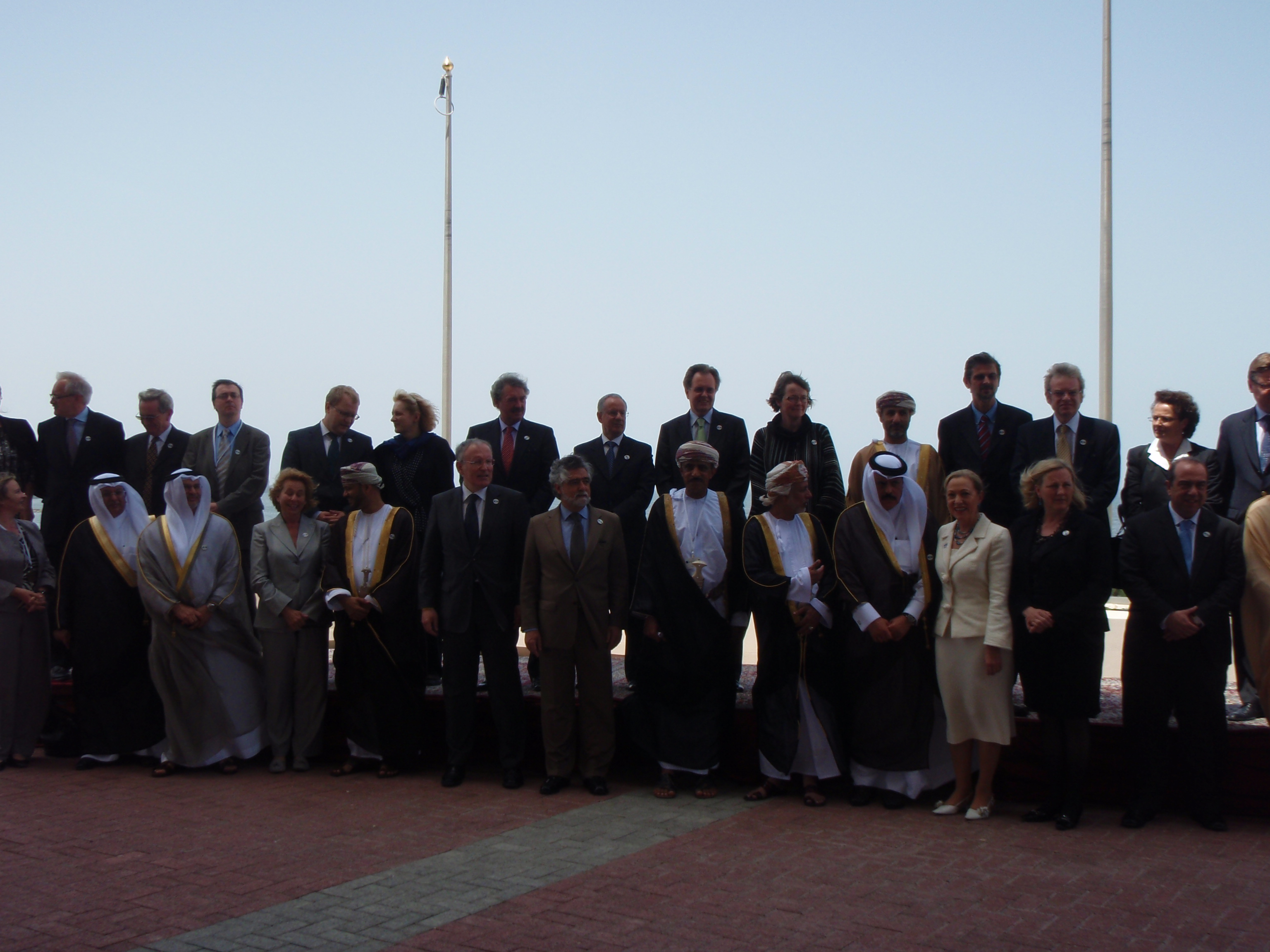 Meeting of foreign ministers of the EU and the Persian Gulf Co-operation Council (PGCC) in Masqat